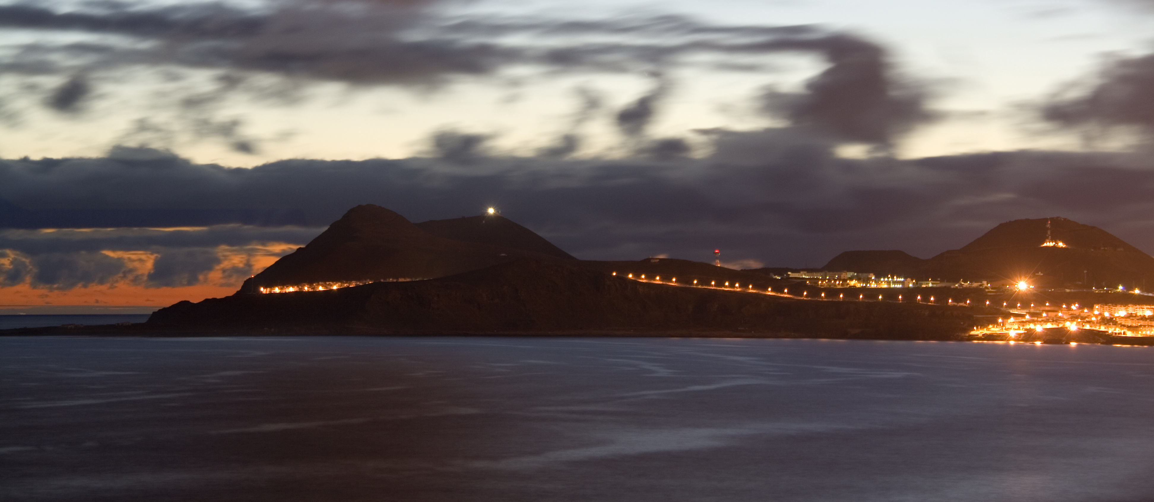 La Isleta Peninsula, Las Palmas de Gran Canaria. Gran Canaria, Canary Islands. Spain.